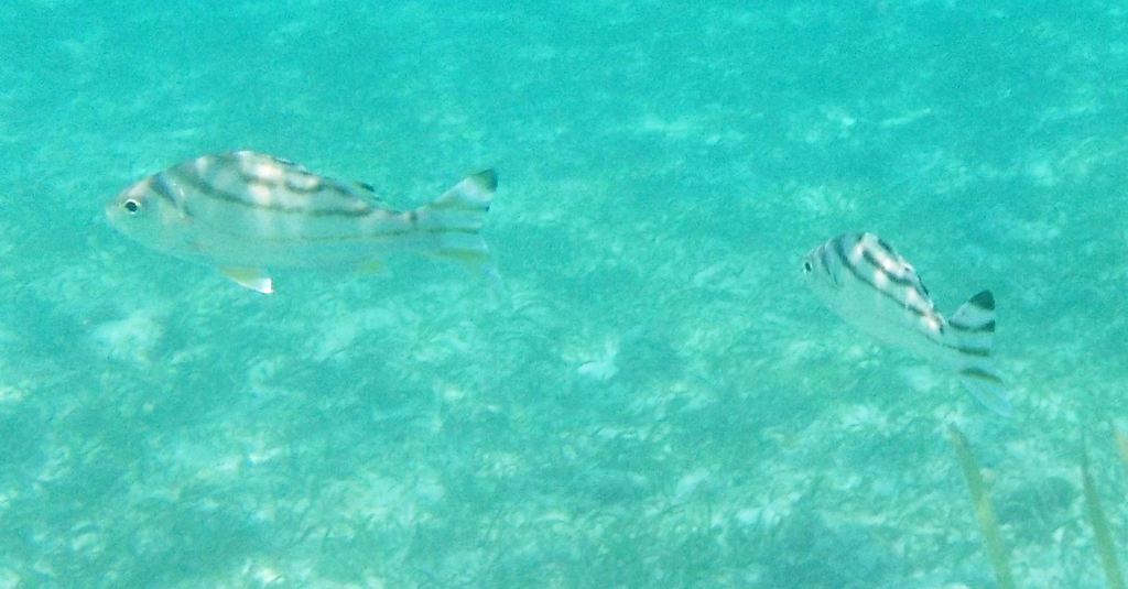 Cogon, Kaputian, Island Garden City of Samal, Davao del Norte, Philippines